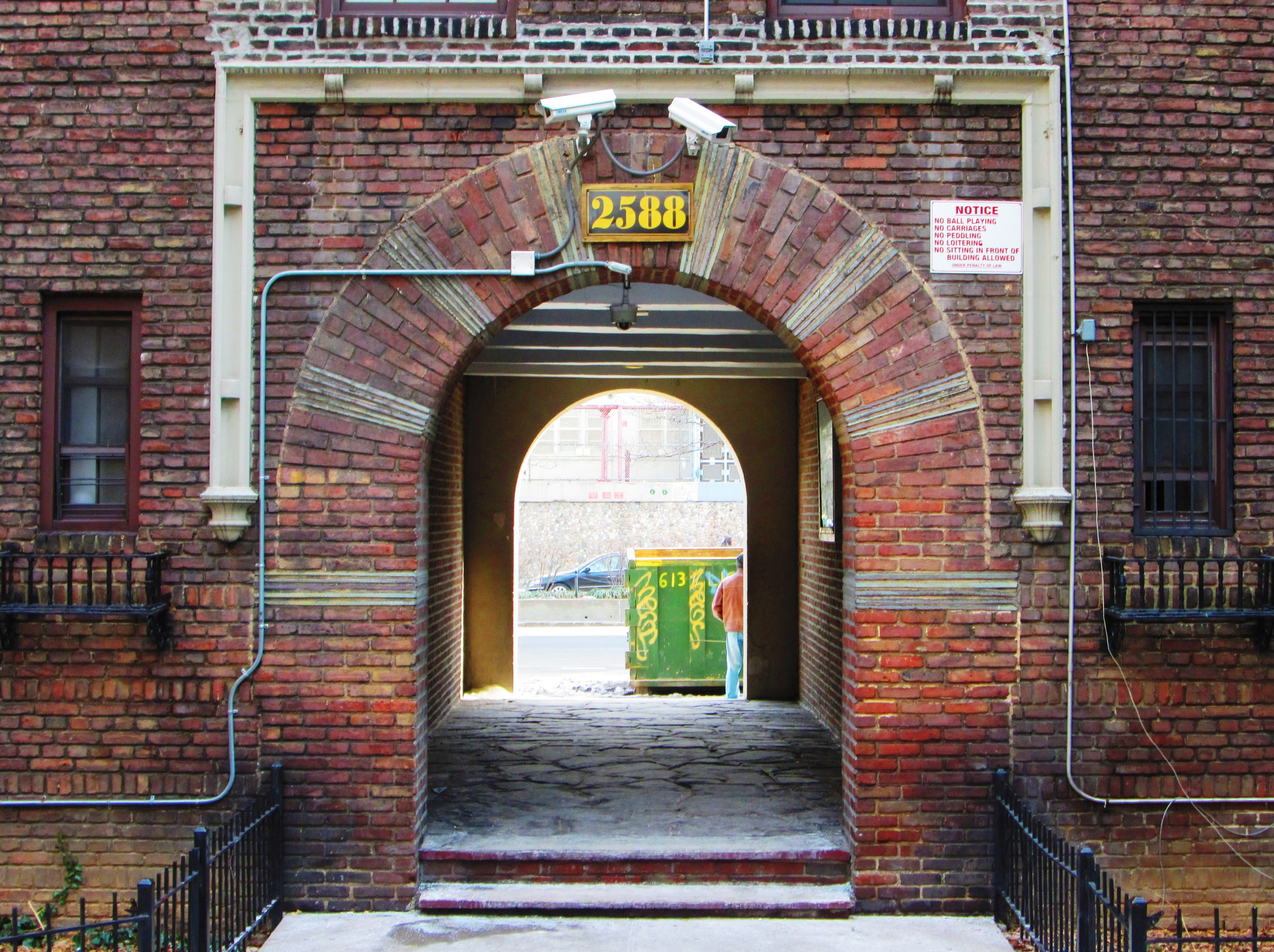 The Dunbar Apartments is a complex of buildings located on West 149th and West 150th Streets between Frederick Douglass Boulevard/Macombs Place and Adam Clayton Powell Jr. Boulevard in the Harlem neighborhood of Manhattan, New York City. They were built by John D. Rockefeller, Jr. from 1926 to 1928 to provide housing for African Americans, the first project of its kind. The buildings were designed by architect Andrew J. Thomas and were named in honor of the noted African American poet Paul Laurence Dunbar. (Sources: Guide to NYC Landmarks (4th ed.) and AIA Guide to NYC (5th ed.))